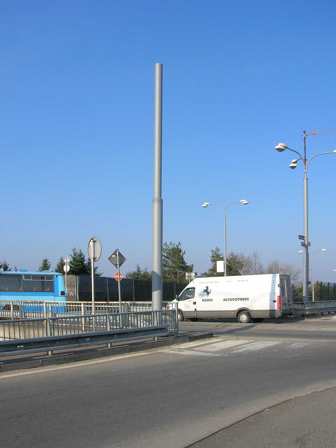 Třebíč. Hrotovická-Sportovní street cross. Traction poles ... remains of the trolleybus project in Třebíč (never realized)